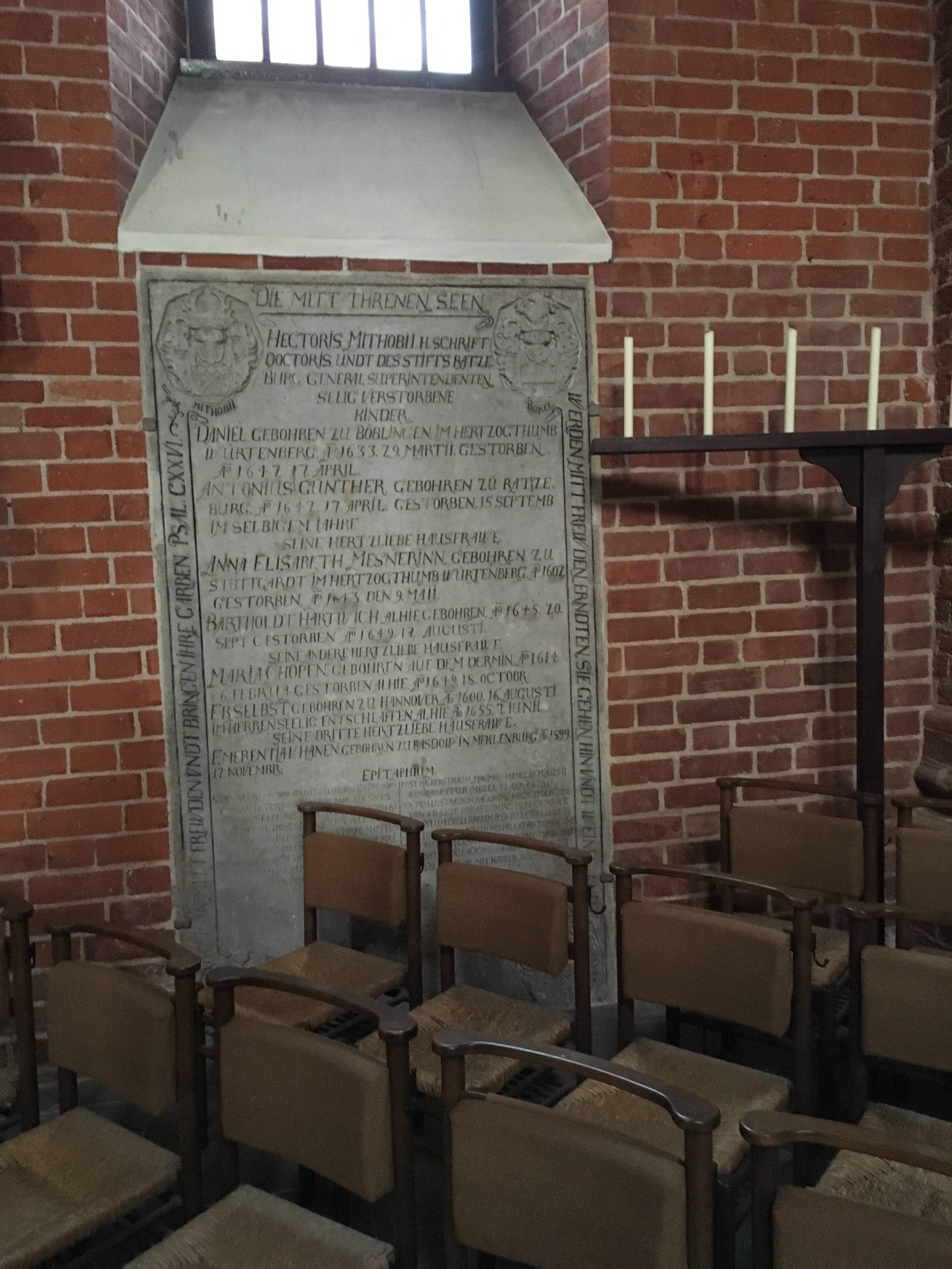 Ratzeburger Dom